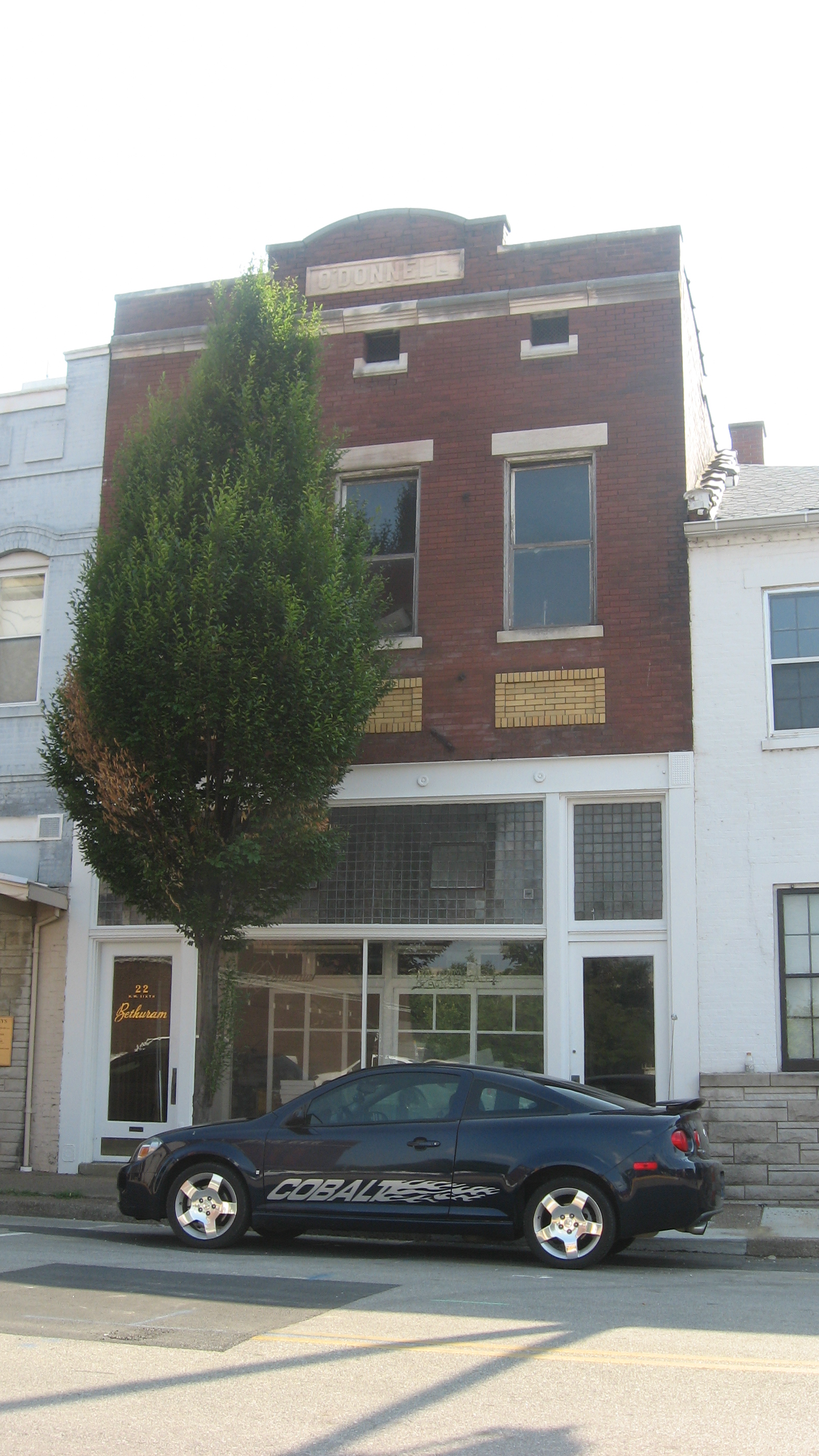 Front of the O'Donnell Building, located at 22 NW. Sixth Street in Evansville, Indiana, United States. Built in 1900, it is listed on the National Register of Historic Places.